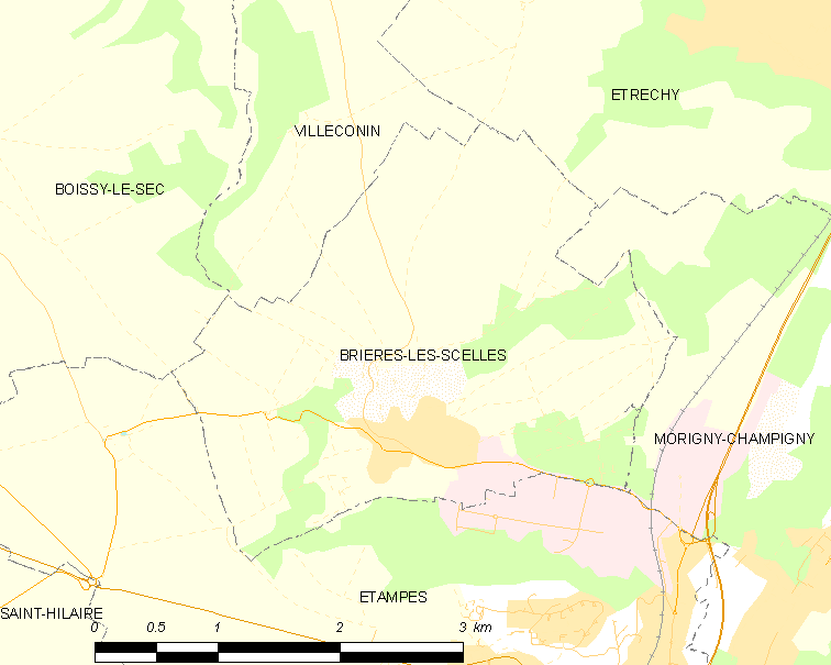 Map of French municipality Brières-les-Scellés